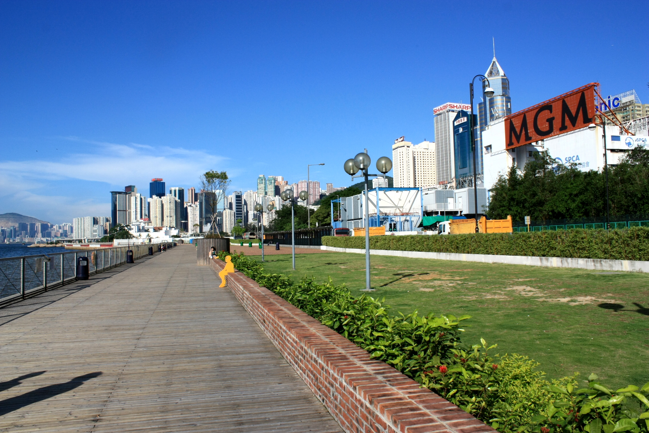 Wan Chai Waterfront Promenade 灣仔海濱長廊